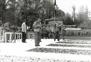 Sándor Dóra in Monza in 1950